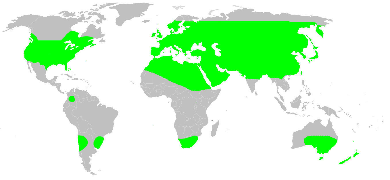 Dysderidae habitat distribution, drawn after Platnick: World Spider Catalog 7.0, and British Arachnological Society, 2006. If you have better information, please replace this map, or send me the info, and i will redraw it.